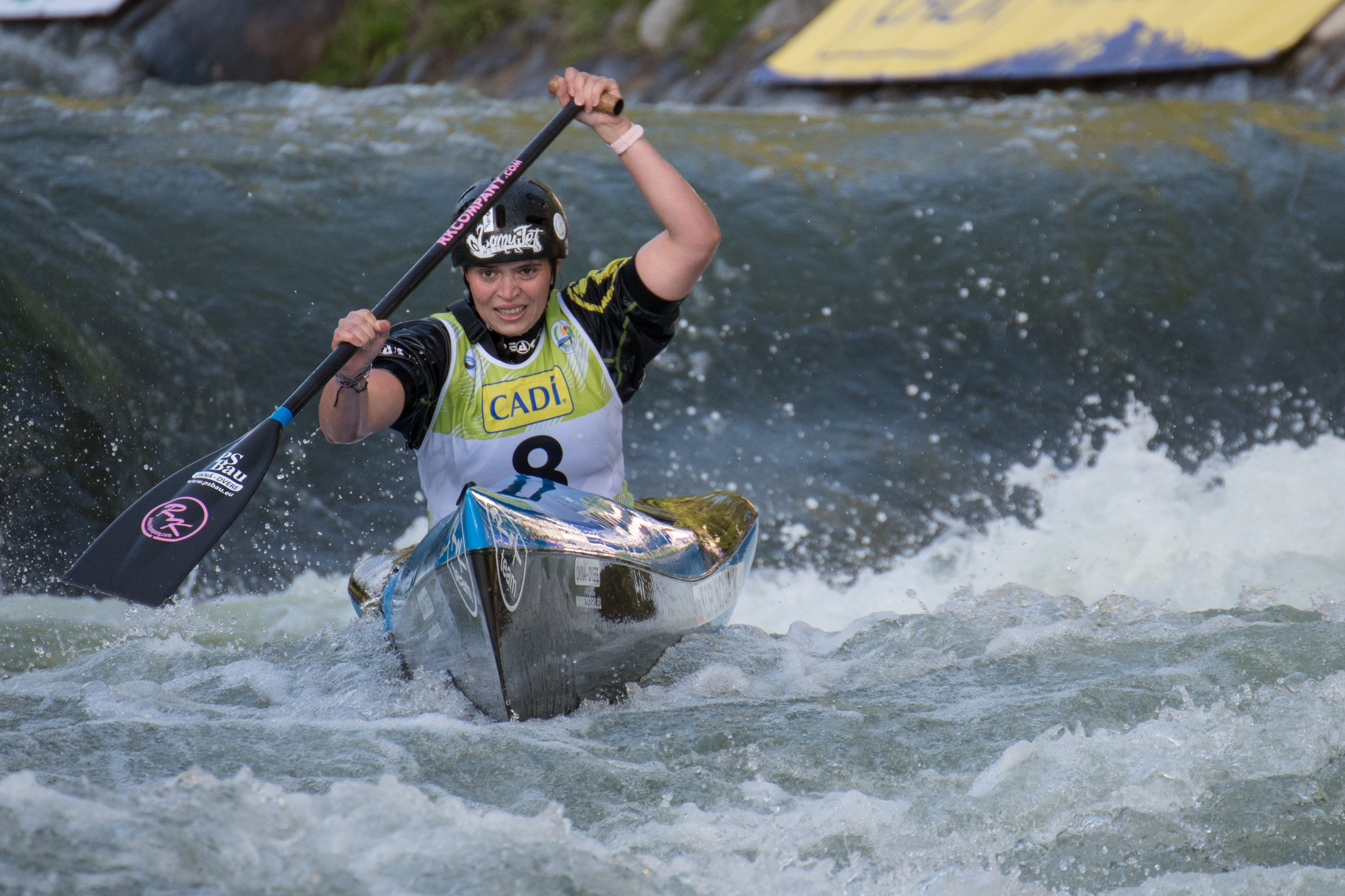 Katarína Kopúnová during the 2019 Canoe Wildwater World Championships in La Seu d'Urgell, Spain.